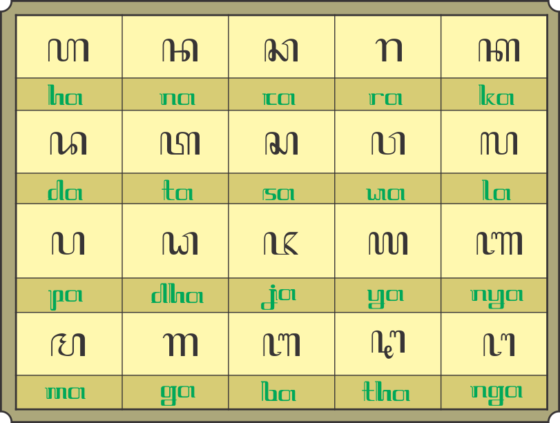 Aksara Jawa Hanacaraka Nglegena